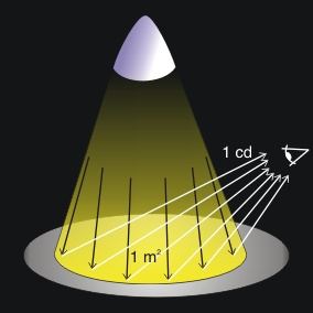 luminancia